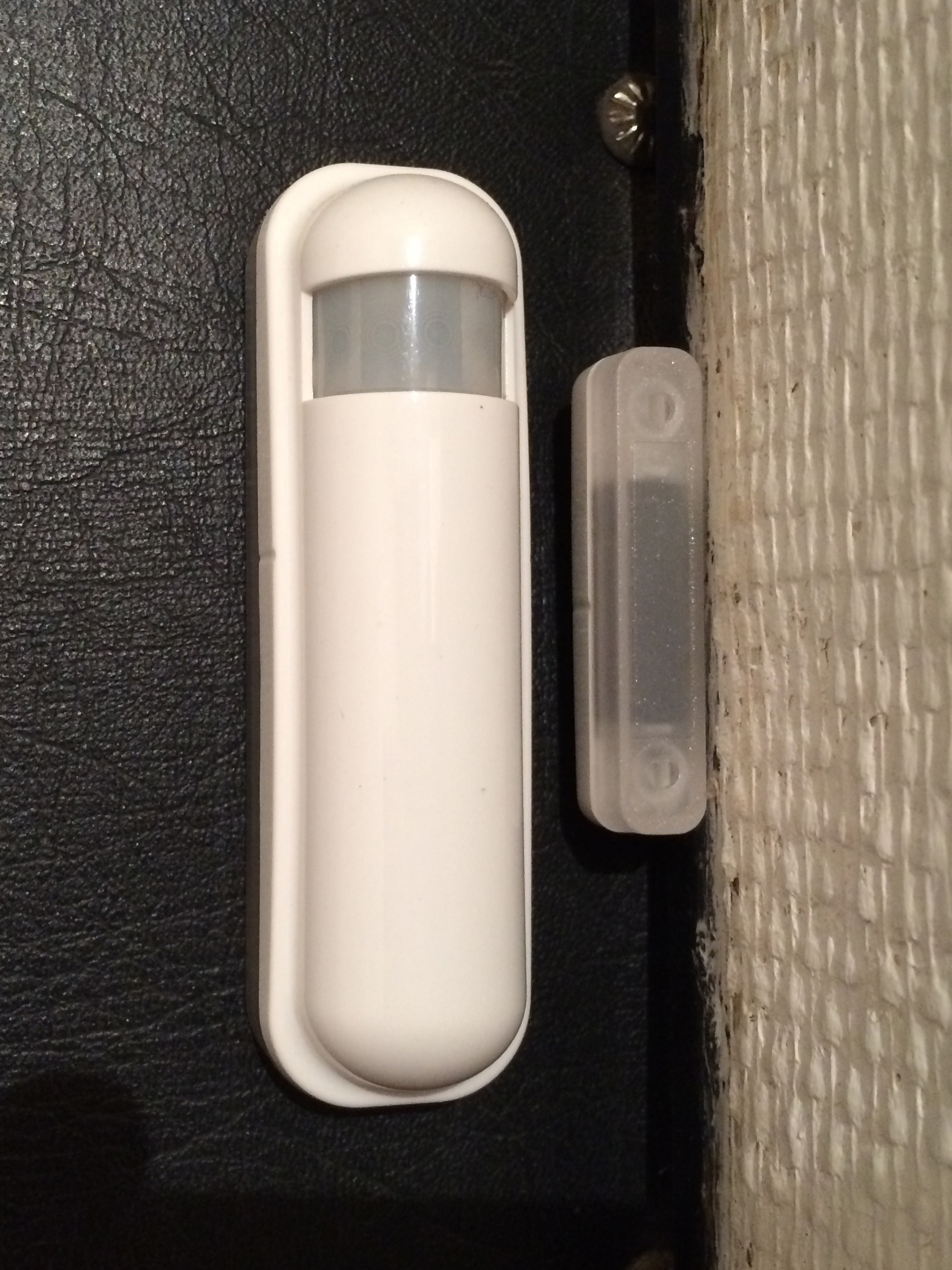 датчик открытия и движения (2 в 1)